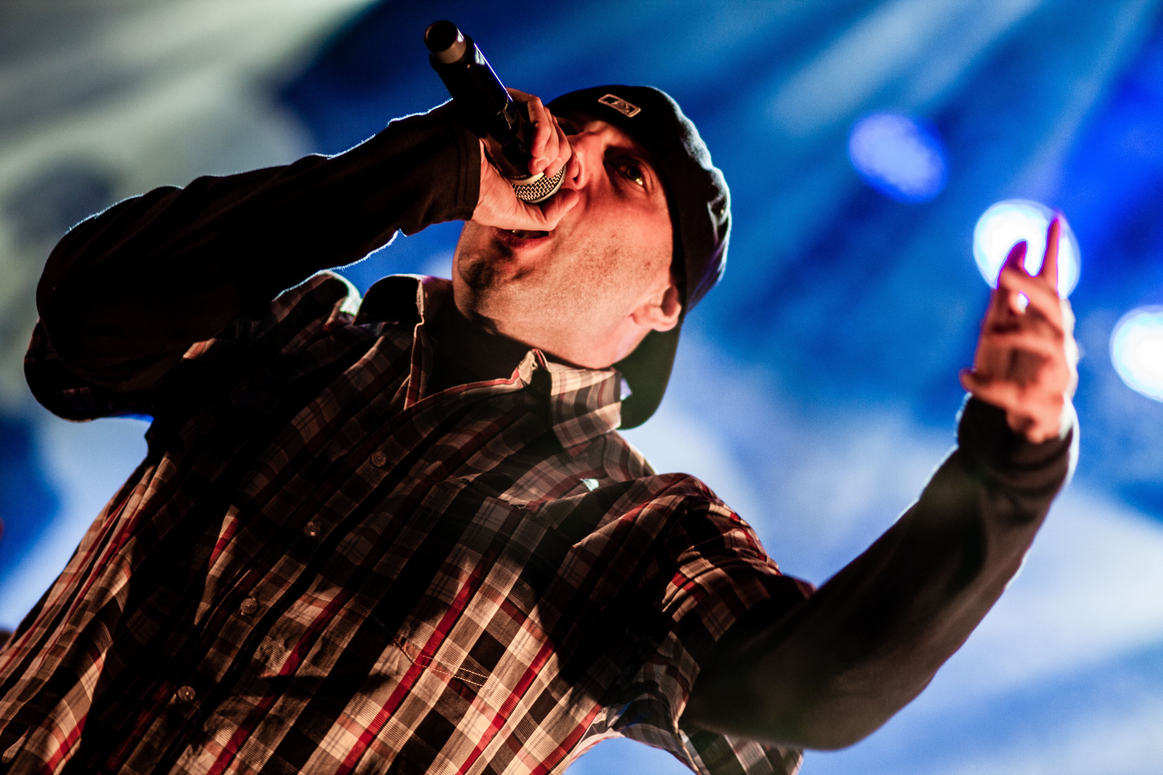 Live from Place des Palais Follow me on facebook Twitter : @didyPhotography All the photographies I've made are now under CC0 (Creative Commons Zero) CC0 - learn more To the extent possible under law, Eddy BERTHIER has waived all copyright and related or neighboring rights to Fête de la musique 2012 - Bruxelles - De Puta Madre. This work is published from: France.